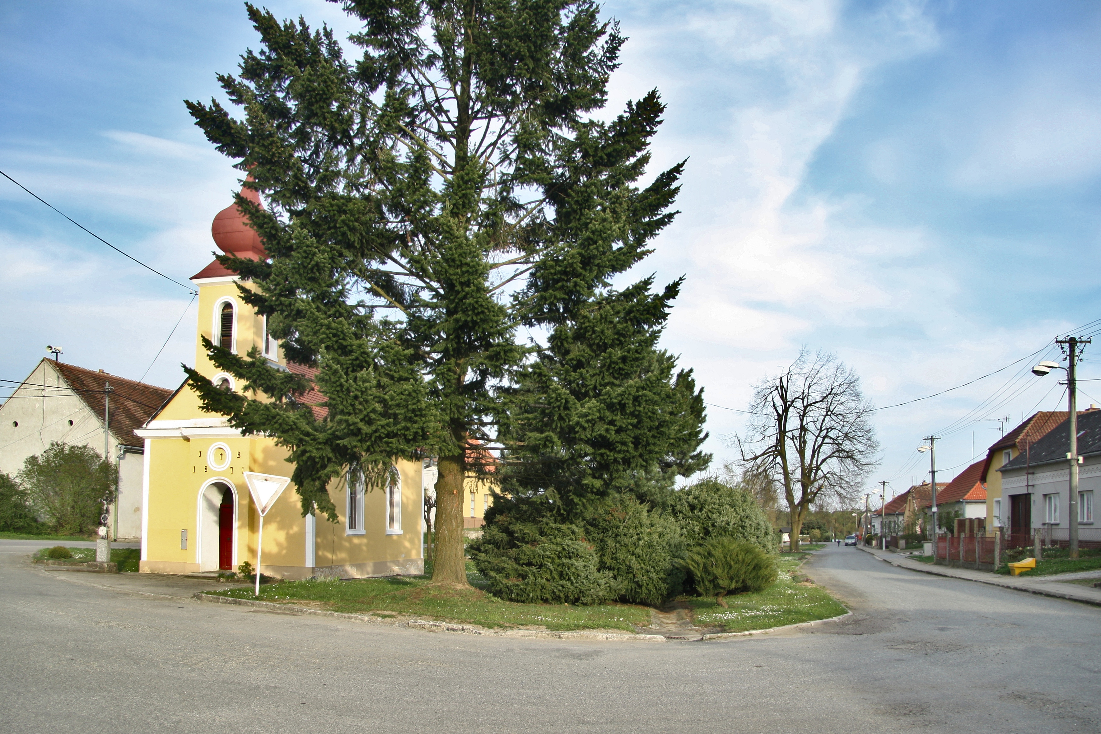 Center of Komárovice with chapel of Saint Joseph in Komárovice, Třebíč District.